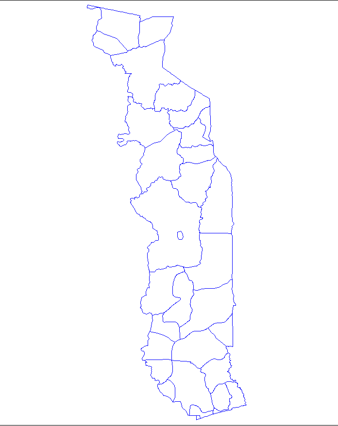 This map has been uploaded by Electionworld from to enable the Wikimedia Atlas of the World . Original uploader to was Rarelibra, known as Rarelibra at . Electionworld is not the creator of this map. Licensing information is below. Map of the prefectures of Togo. Created by Rarelibra for public domain use. Created using MapInfo Professional v7.5 and various mapping resources.